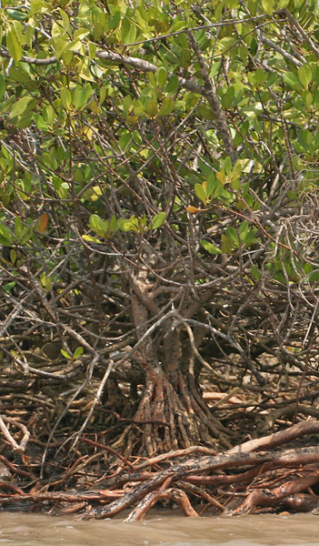 Black Mangrove Lumnitzera racemosa in Krishna Wildlife Sanctuary, Andhra Pradesh, India.